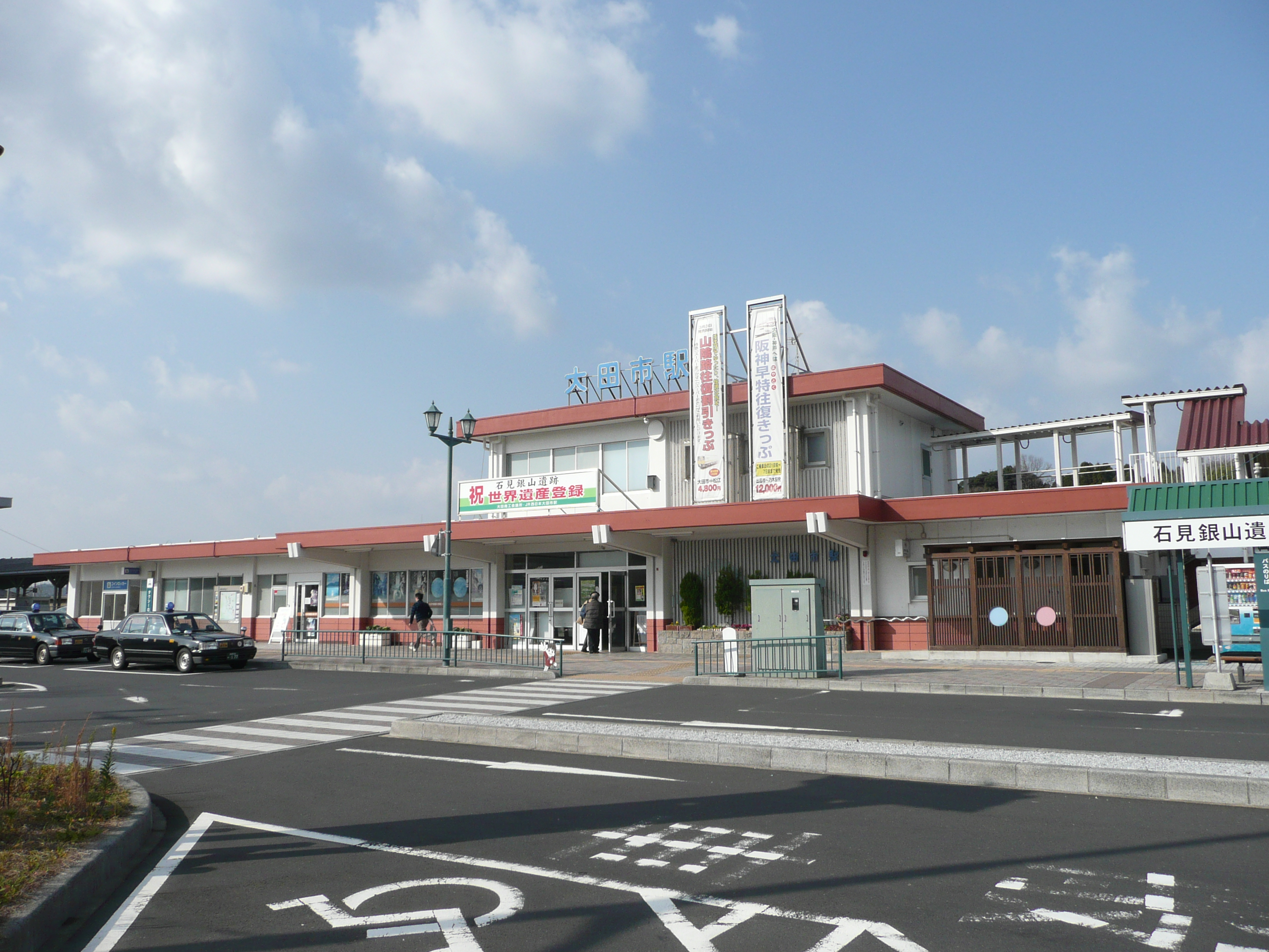 大田市駅舎